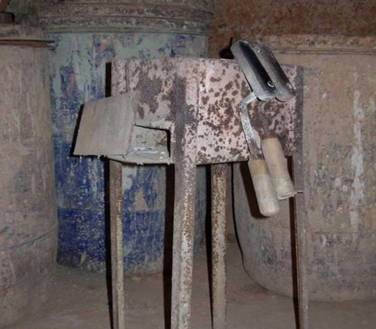 Carbon stove and 2 flat irons for making Hot-ironed stucco (observe the slaked lime barrels in the back)